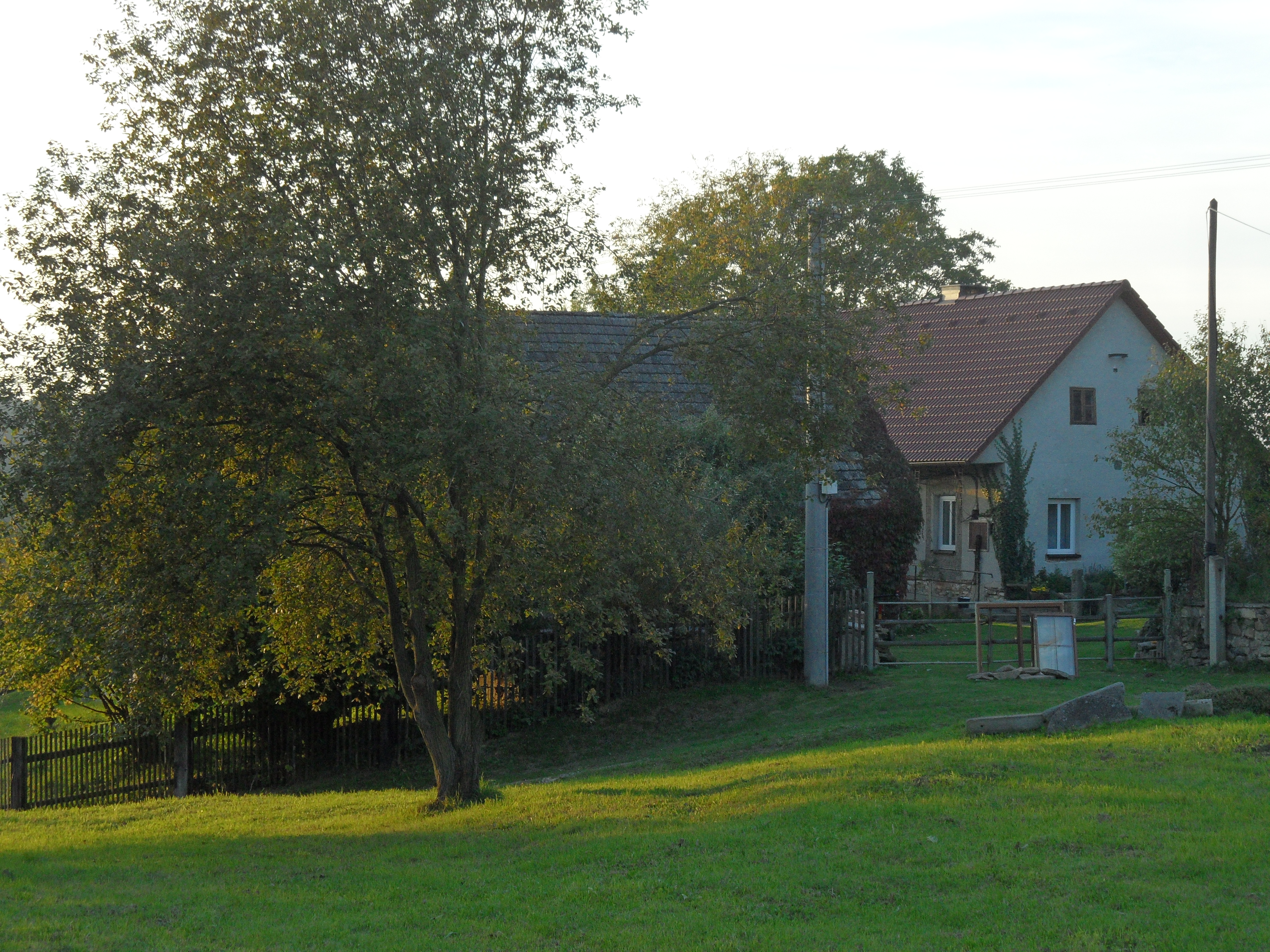 Milošovice (Vlastějovice) A. House Behind Tree, Kutná Hora District, the Czech Republic.